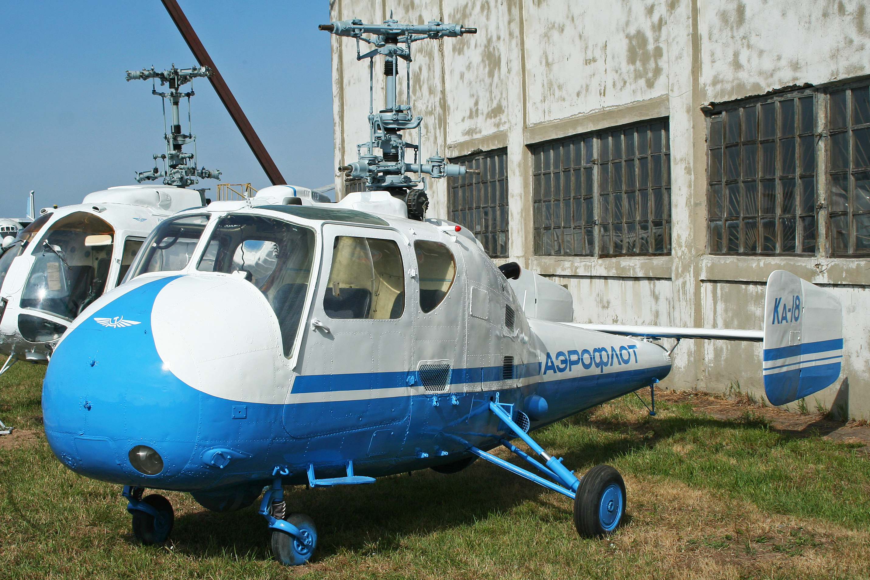 The Ka-18 was a 4-seat development of the Ka-15 2-seater. As with the Ka-15, it served with the Soviet Navy also with Aeroflot. On display outside at the Russian Air Force Museum. Monino, Russia. 13-8-2012